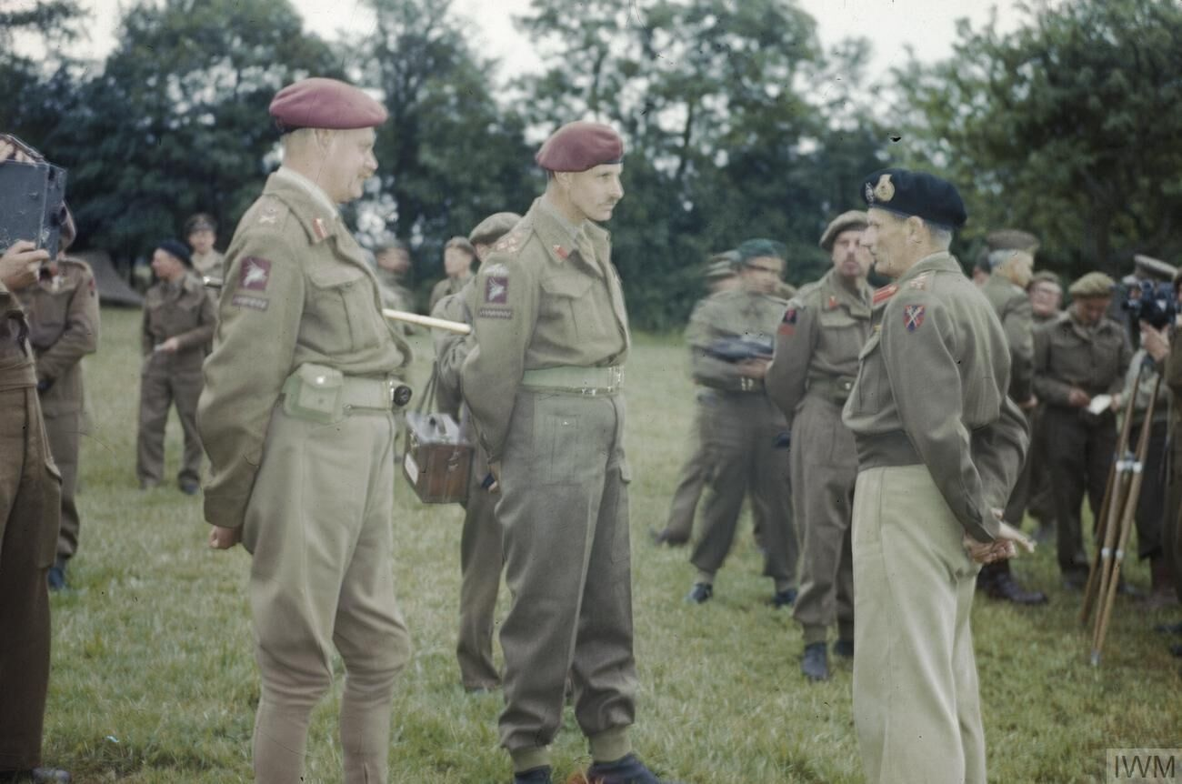 General Sir Bernard Montgomery (right) talking to the British Deputy Chief of Staff and Chief Administrative Officer to General Eisenhower for Operation Overlord, General Sir Humphrey Gale and Brigadier J H N Poett. Both men had just been decorated by the Commander of the United States 1st Army, General Omar Bradley on behalf of President Roosevelt at General Montgomery's Headquarters in Normandy.